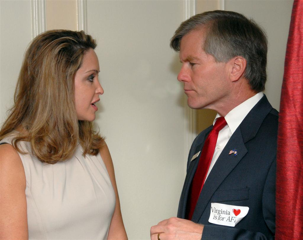 Jeri Thompson, wife of former senator Fred Thompson, speaks with Virginia Attorney Gen Bob McDonnell